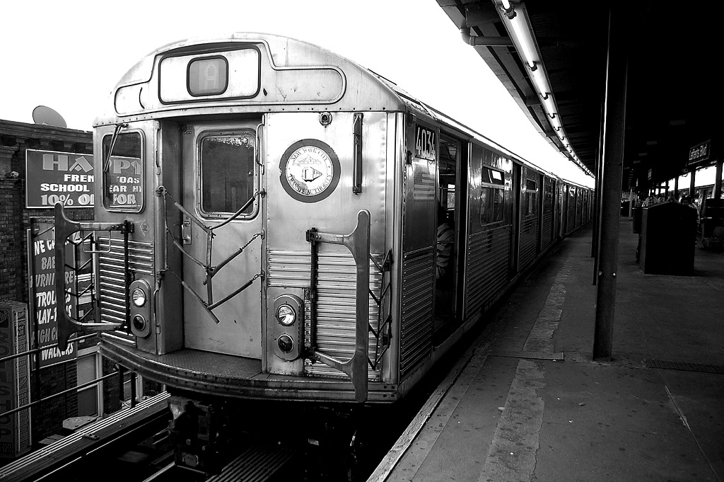 An R38 New York City Subway car at the Lefferts Boulevard terminus in the Ozone Park neighborhood of Queens.